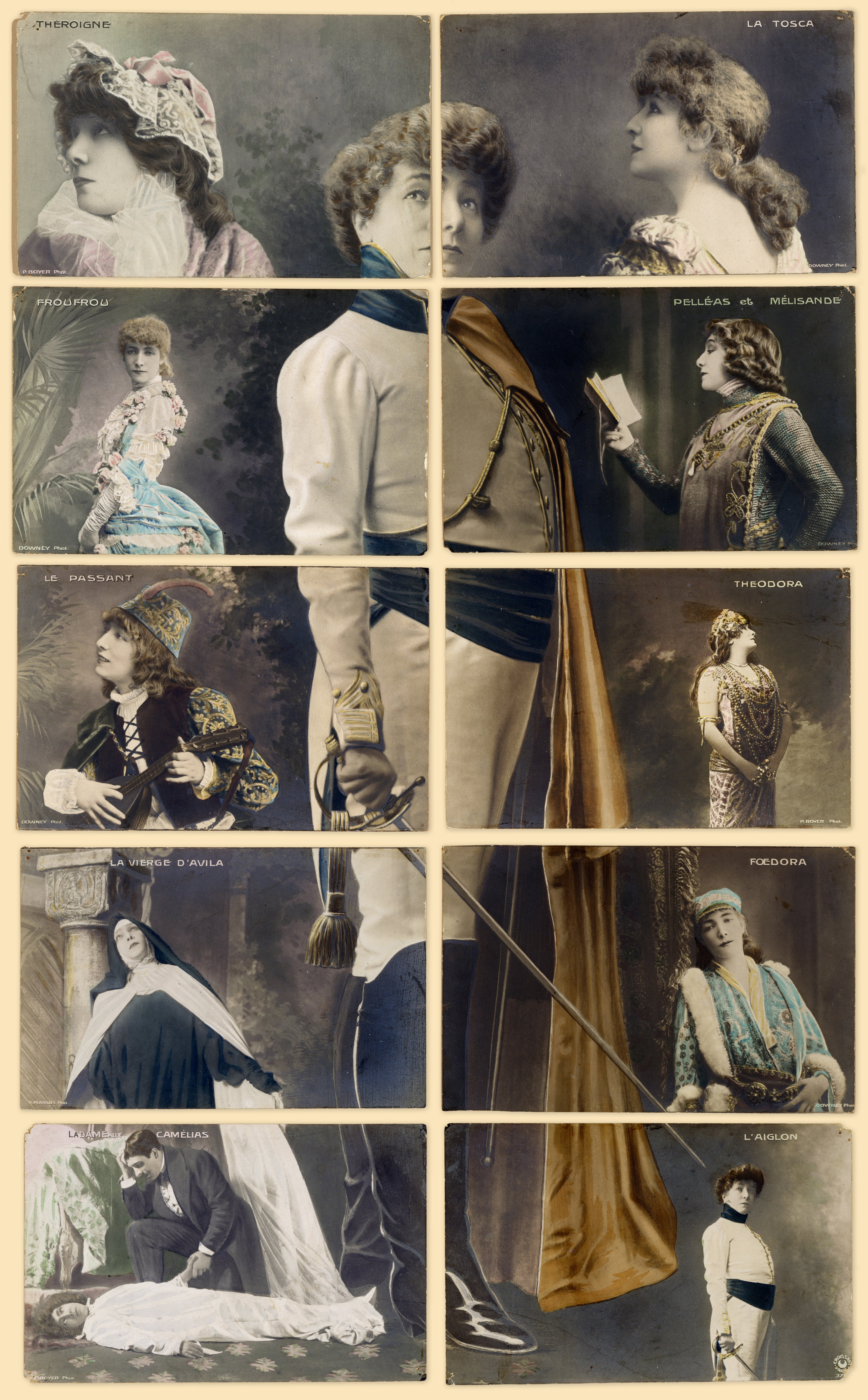 Sarah Bernhardt (1844-1923) was a French stage actress who was arguably the most famous actress of the 19th century. She deliberately cultivated an aura about herself using every form of media, earning such titles as “the Divine Sarah” and the “Sacred Monster.” In France and other countries, her image was endlessly circulated in paintings, engravings, photographs, statues, posters, advertisements, and satirical drawings. This puzzle, consisting of ten postcards, displays her silhouette in her most famous roles, female and male, tragic and dramatic. Throughout her career, Bernhardt reinterpreted many classic roles, such as in the title role in Phèdre by Jean Racine (1639-99), but she also played many roles that contemporary authors created just for her, for example in such plays as The Passer-By (1869) by François Coppée (1842-1908), Frou-Frou (1883) by Henri Meilhac (1831-97) and Ludovic Halévy (1834-1908), Theodora (1884) by Victorien Sardou (1831-1908), and The Eaglet (1900) by Edmond Rostand (1868-1918). Actors; Bernhardt, Sarah, 1844-1923; Postcards; Puzzles